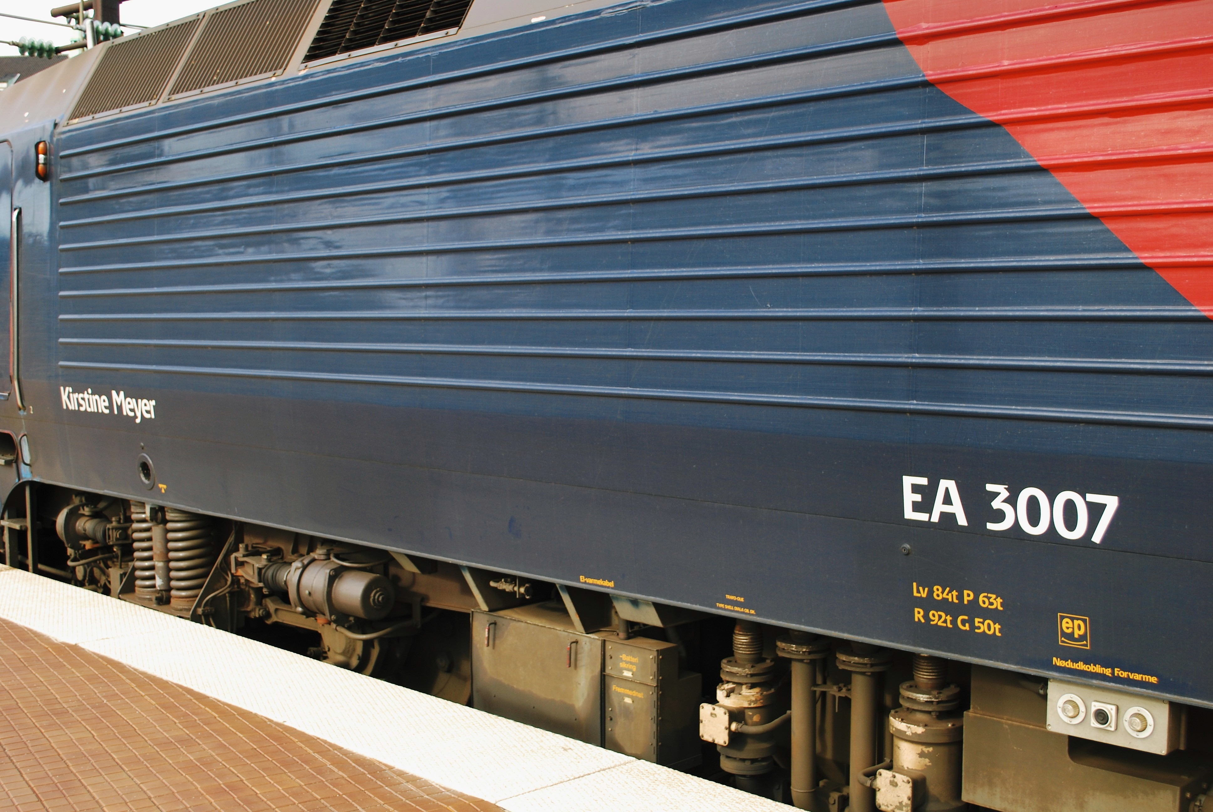 Number and name of DSB Thyssen-Henschel/Siemens/Scandia Class EA, 25kV ac, 5,360 hp Bo-Bo No.3007 "Kirstine Meyer" at Kobenhavn, 6/10.